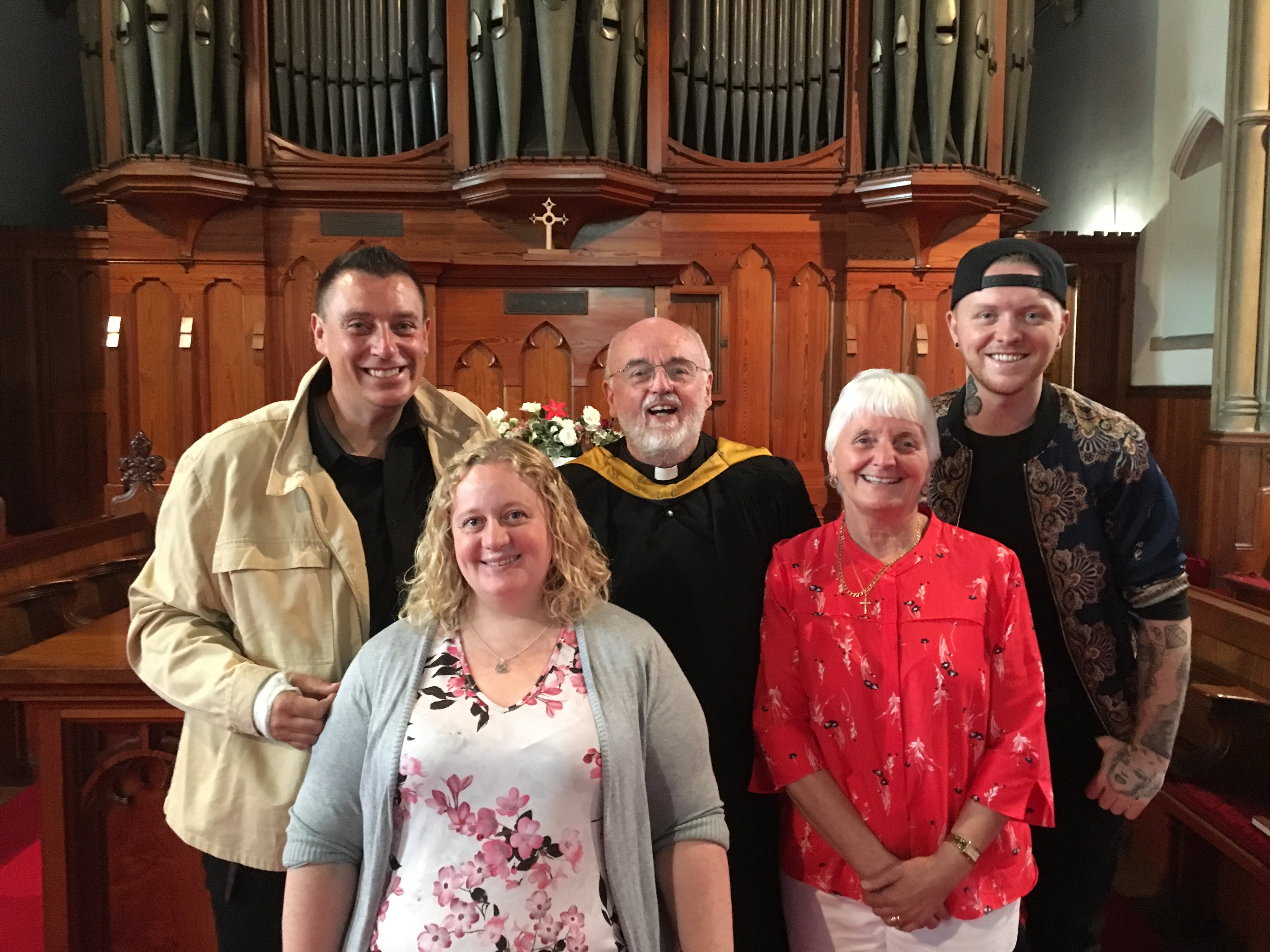 St. Andrew's United Reformed Church, Roath, Cardiff minister Des Kitto (back middle) with elders Angela Grech (front left) and Pauline Hegarty (front right) and local fundraisers Wayne Courtney (back left) and Nathan Wyburn (back right).